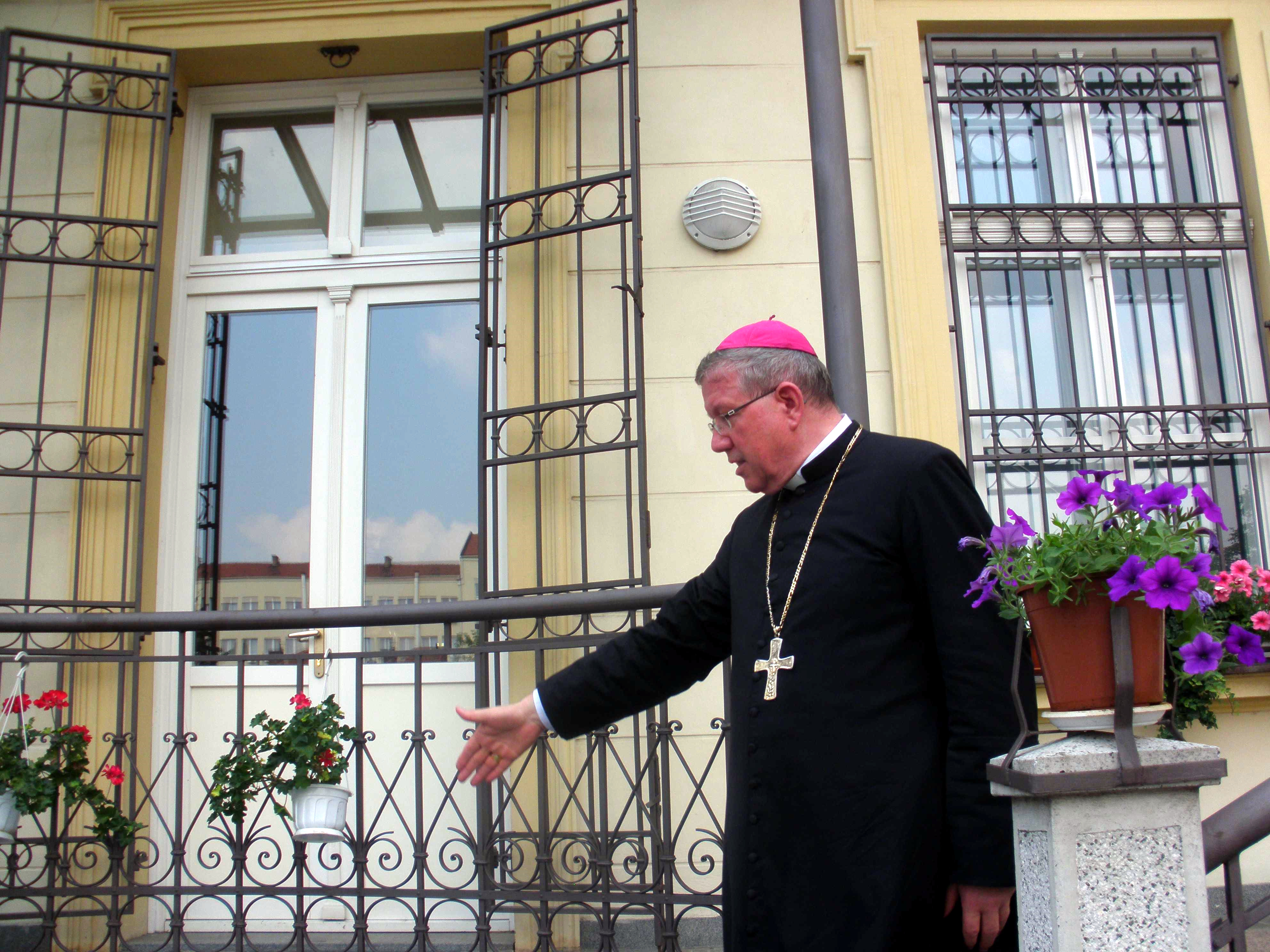 Metropolit Stanislav Hočevar explains mosaic of Marko Rupnik in Belgrade's residence